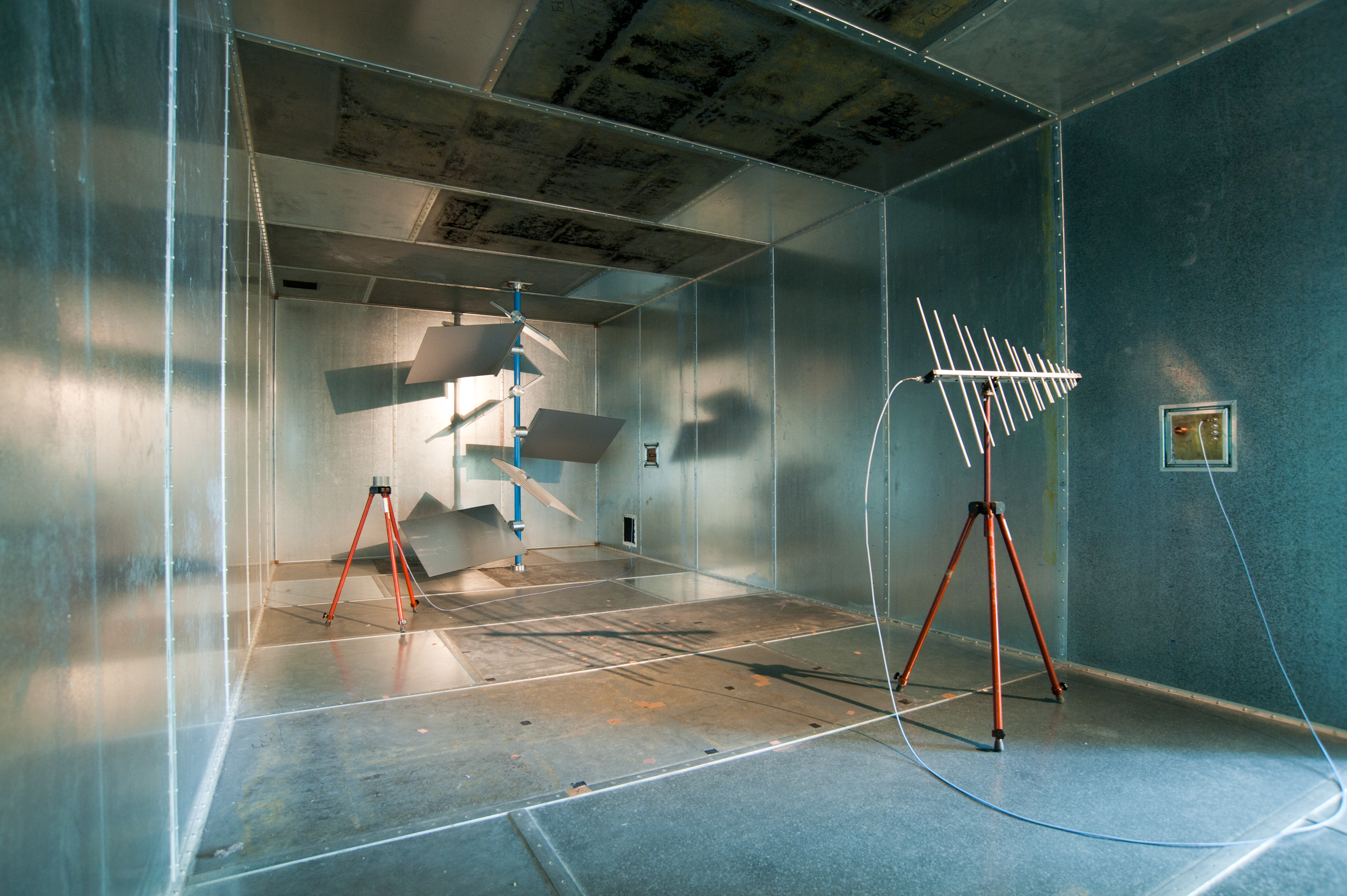 view of the reverberation chamber at IETR laboratory, Rennes.